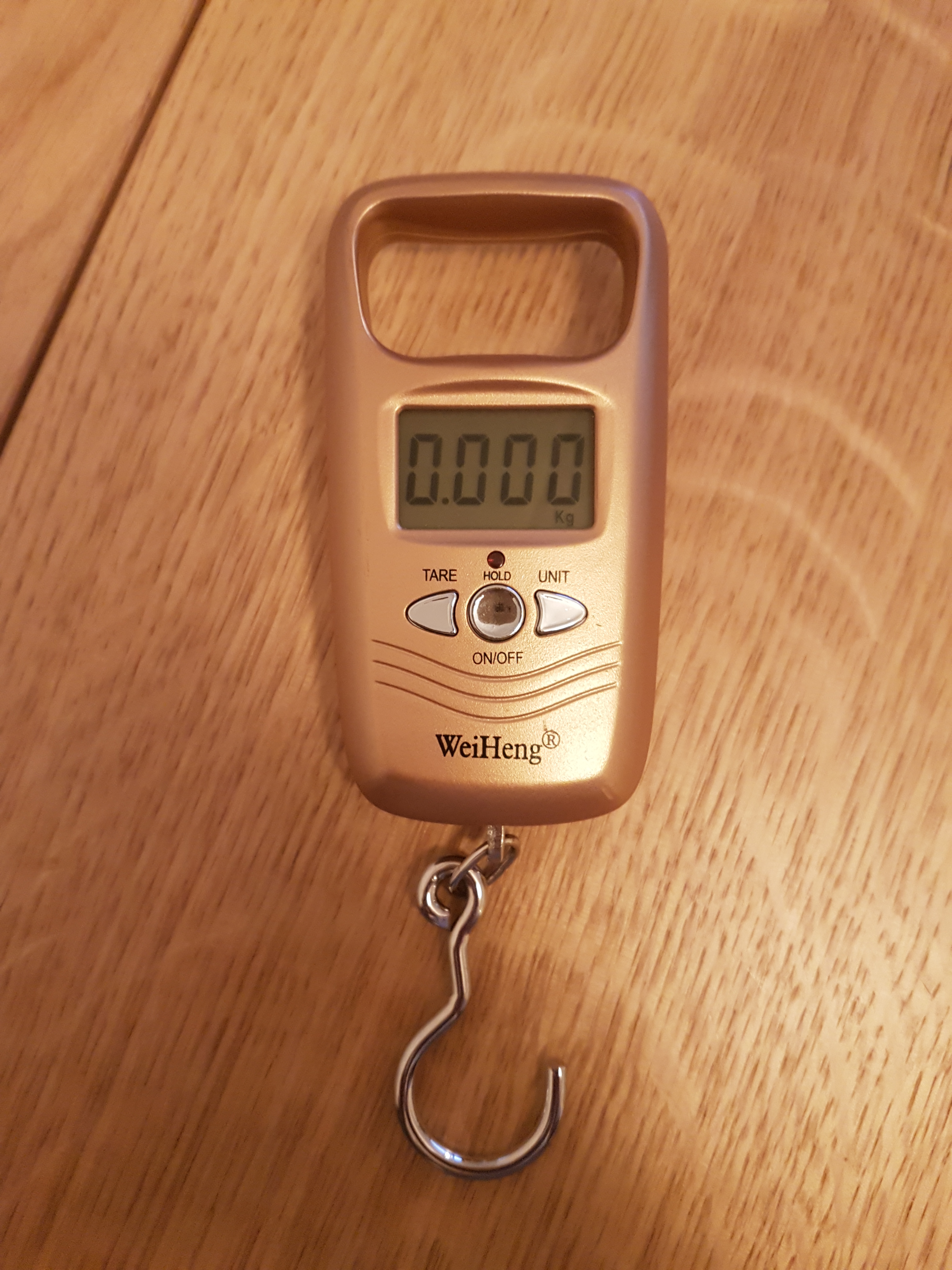 mini weight